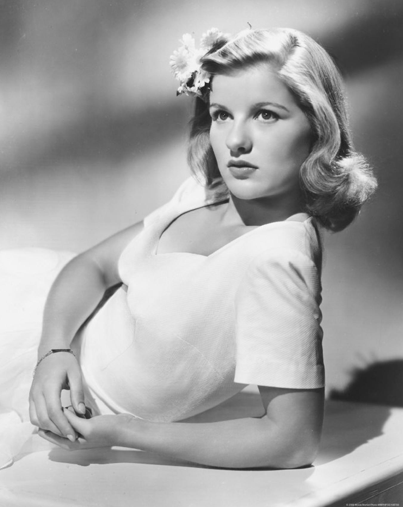 Promotional photograph of actor Barbara Bel Geddes (1950s)